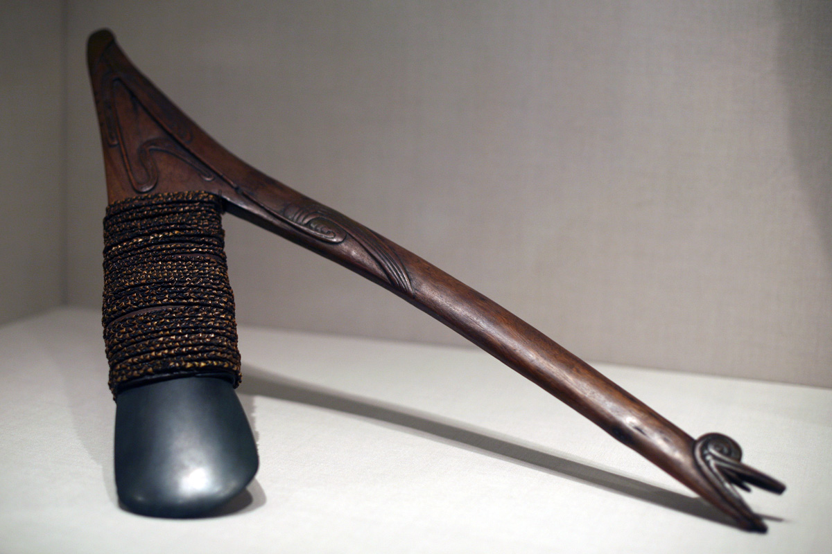 Ceremonial Axe, Mid to late 19th century Papua New Guinea, Massim region Wood, stone, fiber; L: 27 3/8in. (69.5cm) The Metropolitan Museum of Art, New York, The Michael C. Rockefeller Memorial Collection, Bequest of Nelson A. Rockefeller, 1979 (1979.206.1526) View at the Metropolitan Museum of Art website Wikipedia Loves Art at the Metropolitan Museum of Art This photo of item # 1979.206.1526 at the Metropolitan Museum of Art was contributed under the team name "shooting_brooklyn" as part of the Wikipedia Loves Art project in February 2009. Metropolitan Museum of Art The original photograph on Flickr was taken by shooting brooklyn—please add a comment to the original Flickr page whenever a use has been made on Wikipedia or another project. Project galleries on Flickr: this institution, this team